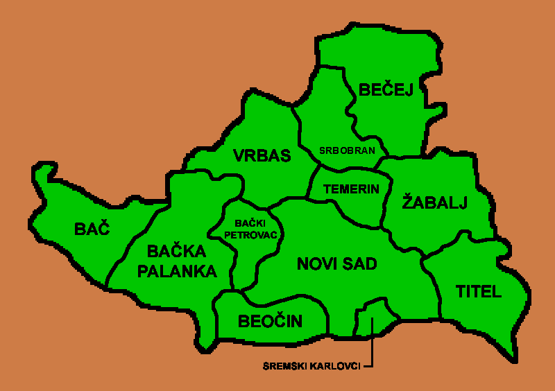 South Backa District map